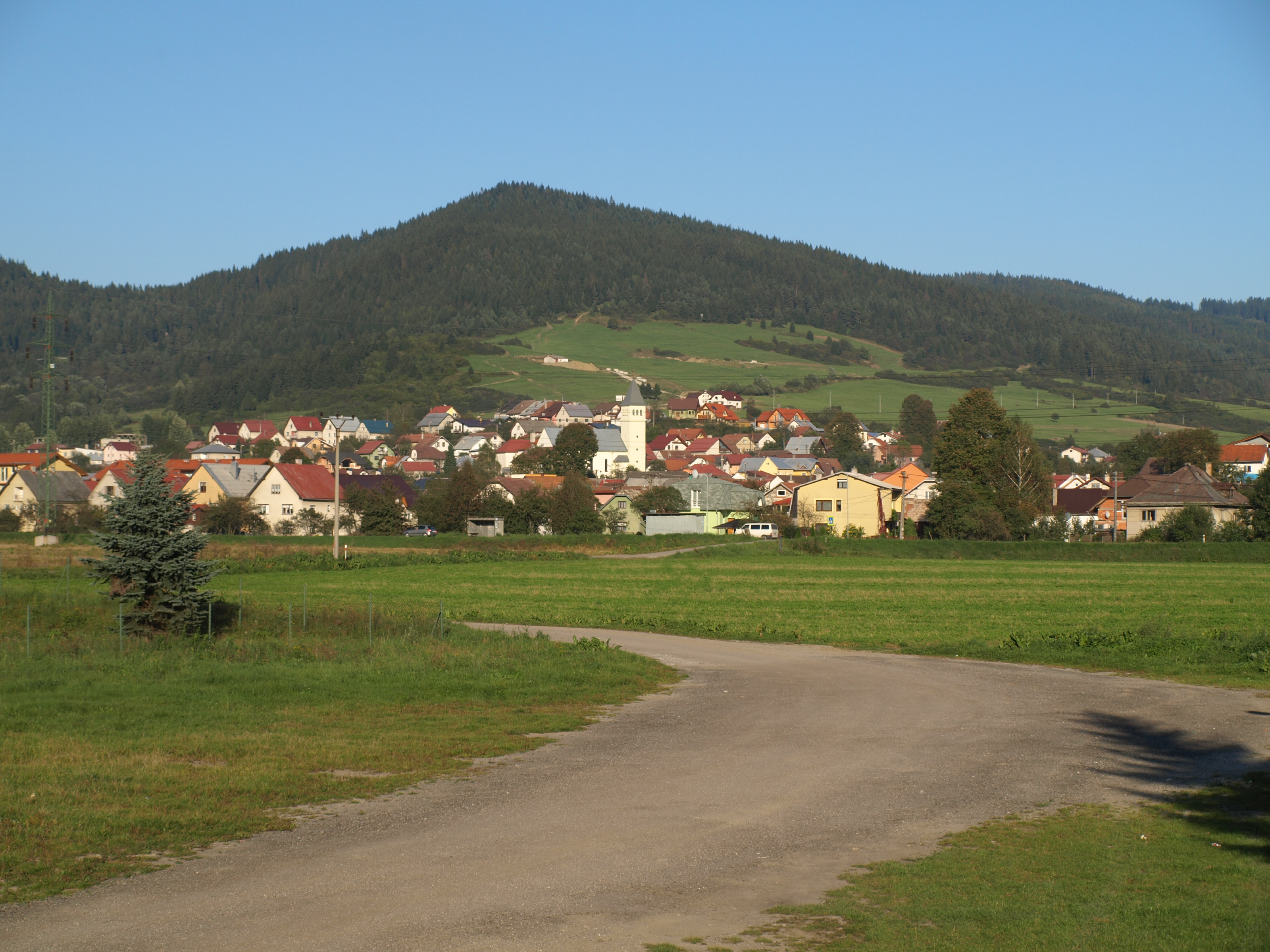 Kysucký Lieskovec - see from socer stadium